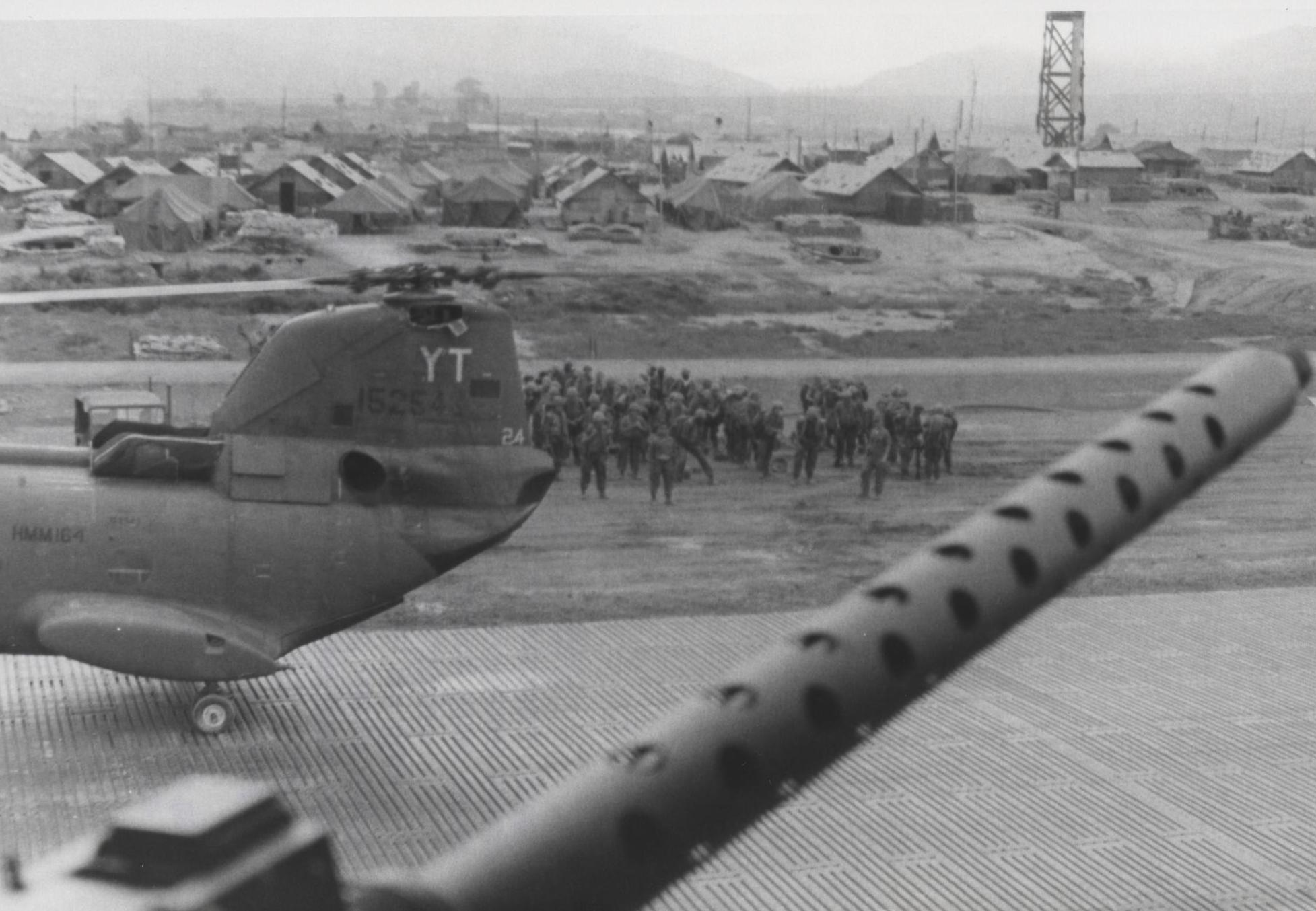 "Multi-Battalion Lift: Elements of the 5th Marine Regiment stand by at the An Hoa Base waiting to board Sea Knight helicopters of Marine Medium Helicopter Squadron 164 [HMM-164]. More than 3,500 Leatherneck infantrymen were airlifted November 20 in a sector about eight miles southwest of Da Nang as they kicked off Operation Meade River. Approximately 75 helicopters from three aircraft groups of the 1st Marine Aircraft Wing [1st MAW] took part in the operation." From the Jonathan F. Abel Collection (COLL/3611), Marine Corps Archives & Special Collections OFFICIAL USMC PHOTOGRAPH